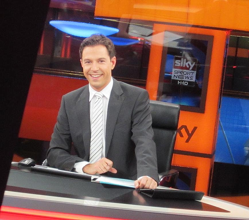 Björn Schwemin 2013